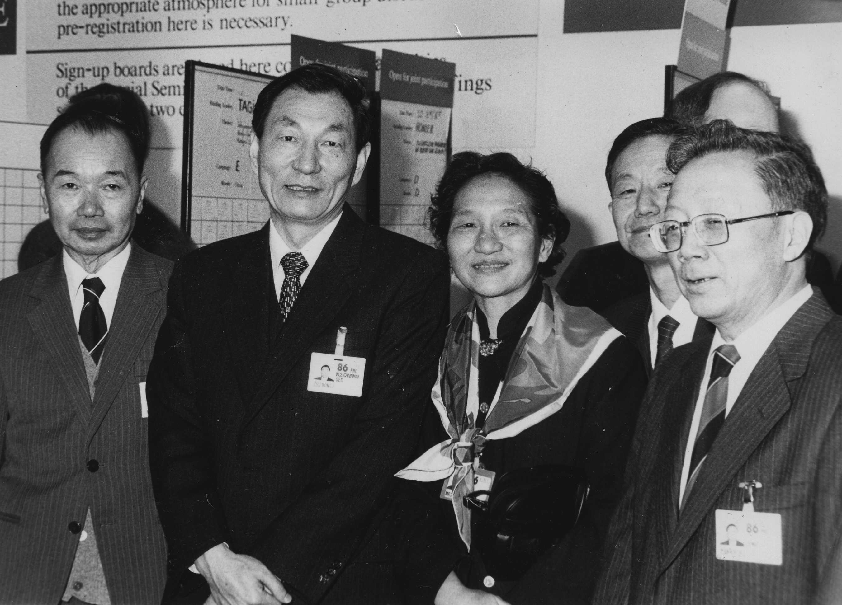 DAVOS/SWITZERLAND, FEB 1986 - Zhu Rongji (second left), Vice-Chairman of China’s State Economic Commission and future premier (1998 - 2003), leading the Chinese delegation at the European Management Symposium, the predecessor of the World Economic Forum in Davos in 1986. Copyright World Economic Forum (